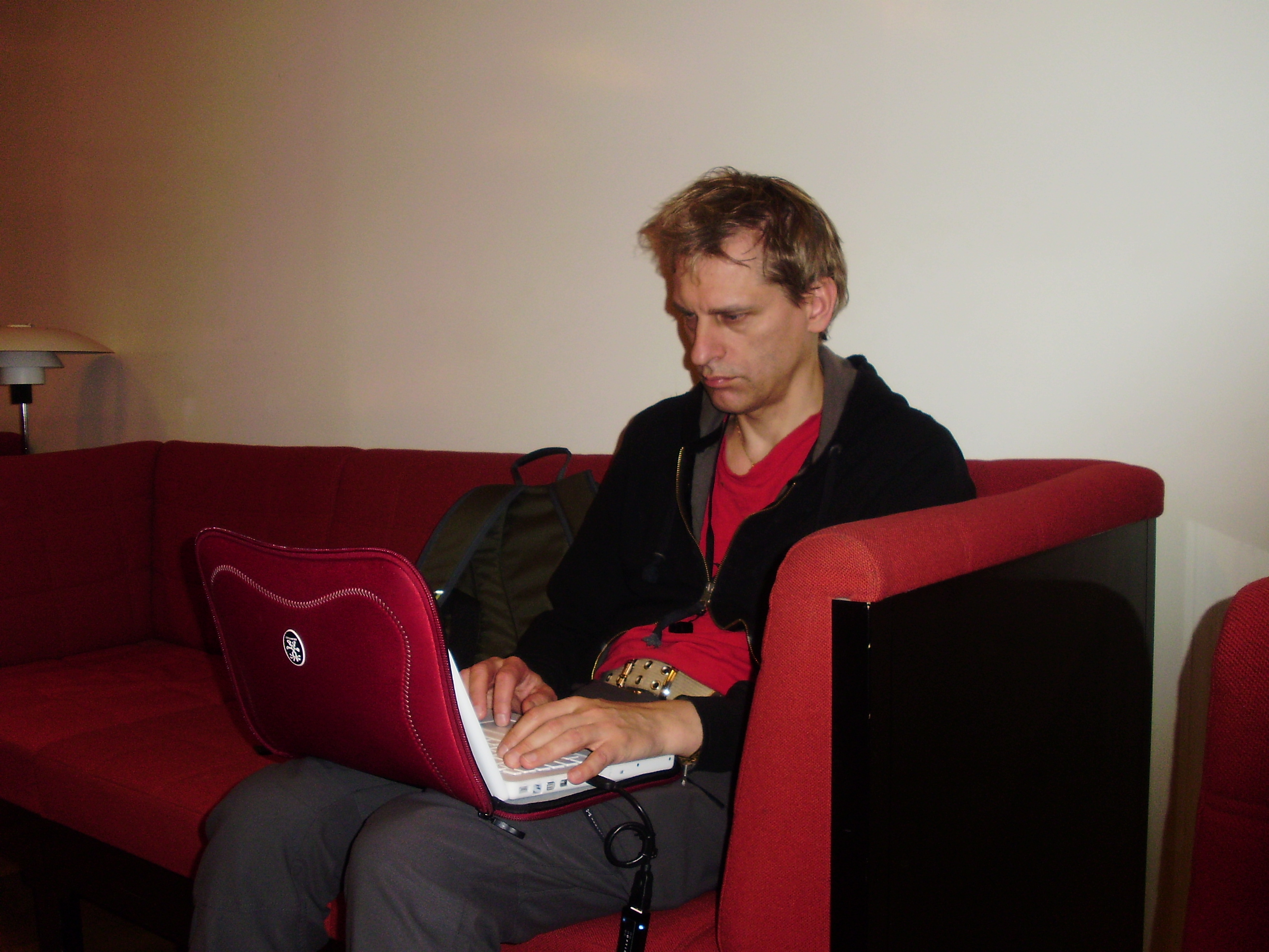 Oscar Swartz, debator, entrepreneur, writer and blogger, at the district court in Stockholm in Sweden, at The Pirate Bay trial (The Spectrial).